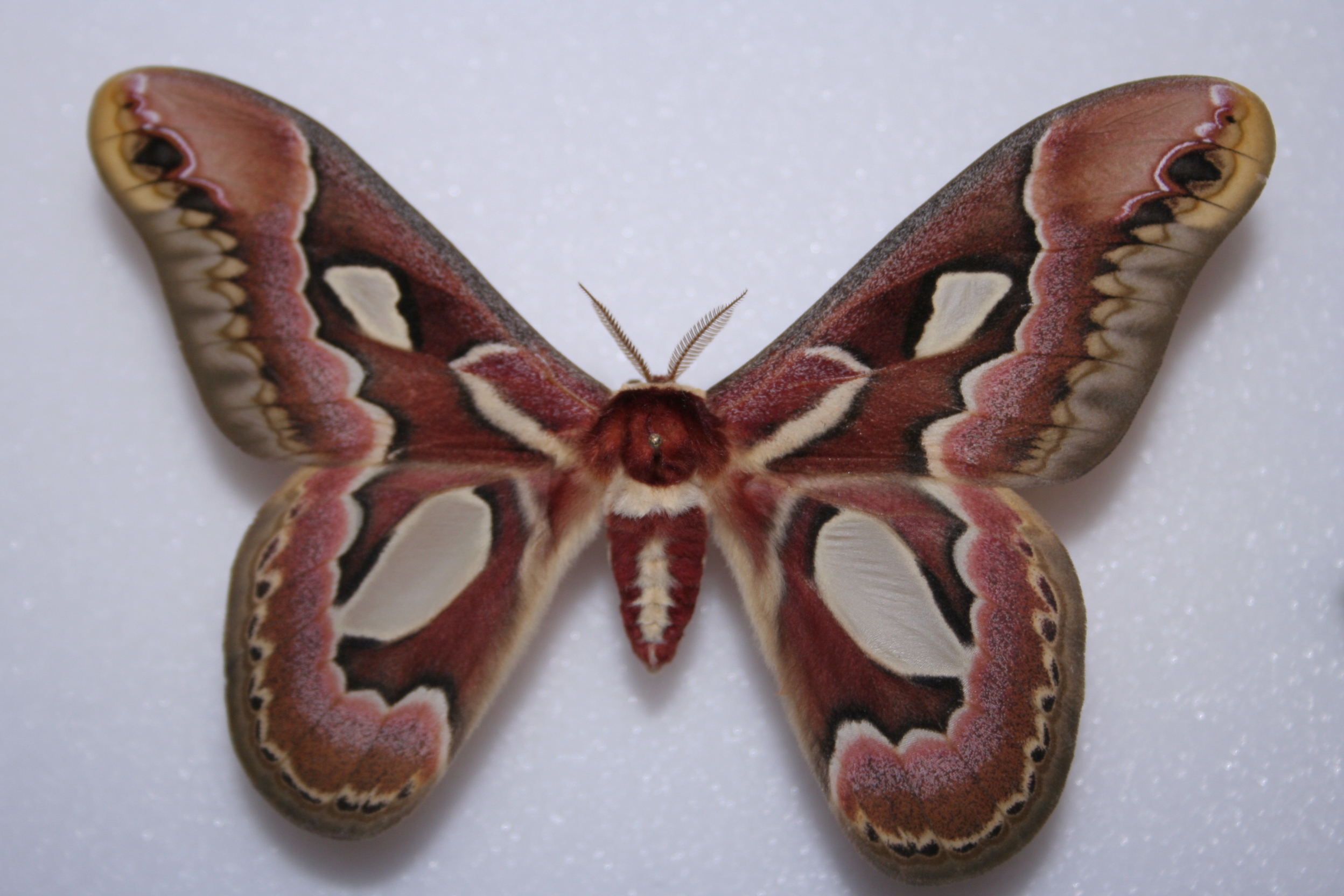 Rothschildia jacobaeae Walker, 1855